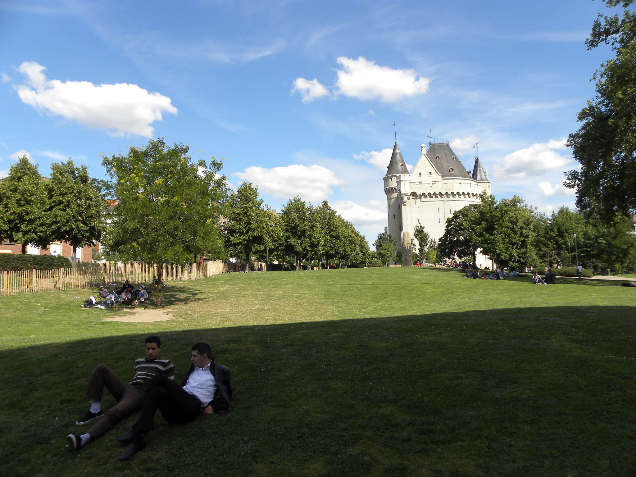 Sight of a Brussels sunny park with (three groupsof )male members of the local North-African community sitting in the shadow